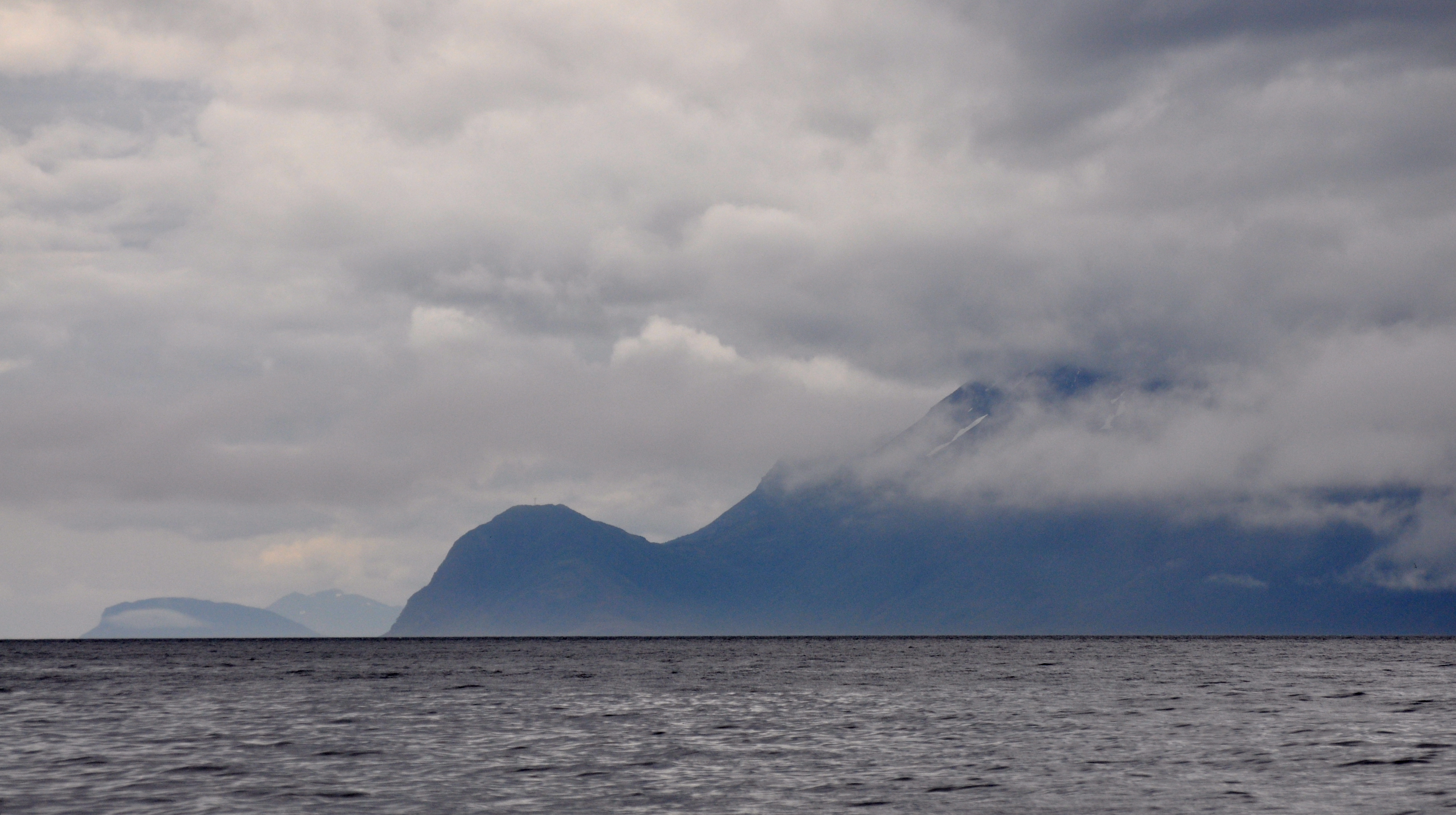 Cape Froward, Tierra del Fuego, Chile